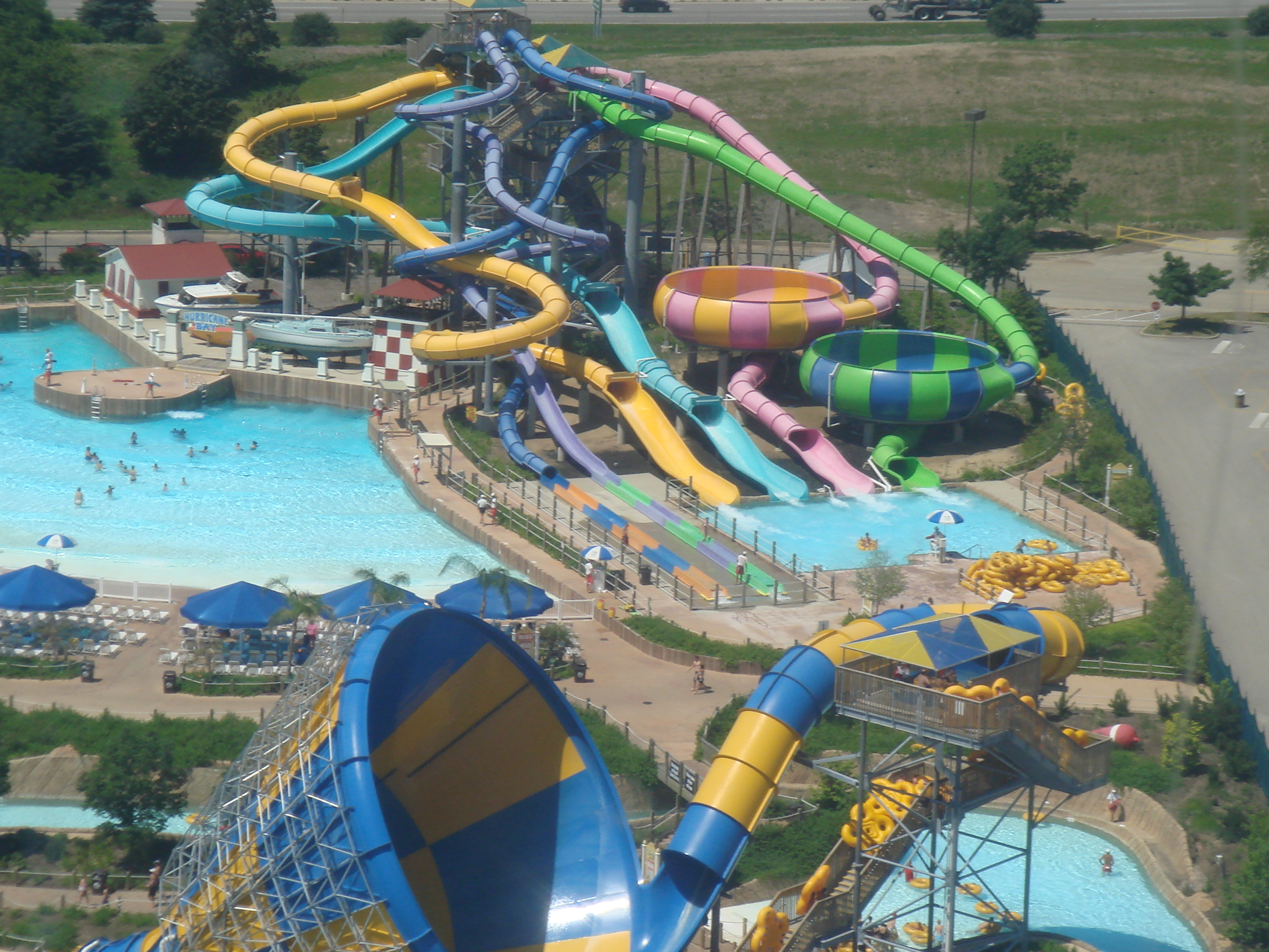 Six Flags Hurricane Harbor in Six Flags Great America near Gurnee, Illinois.